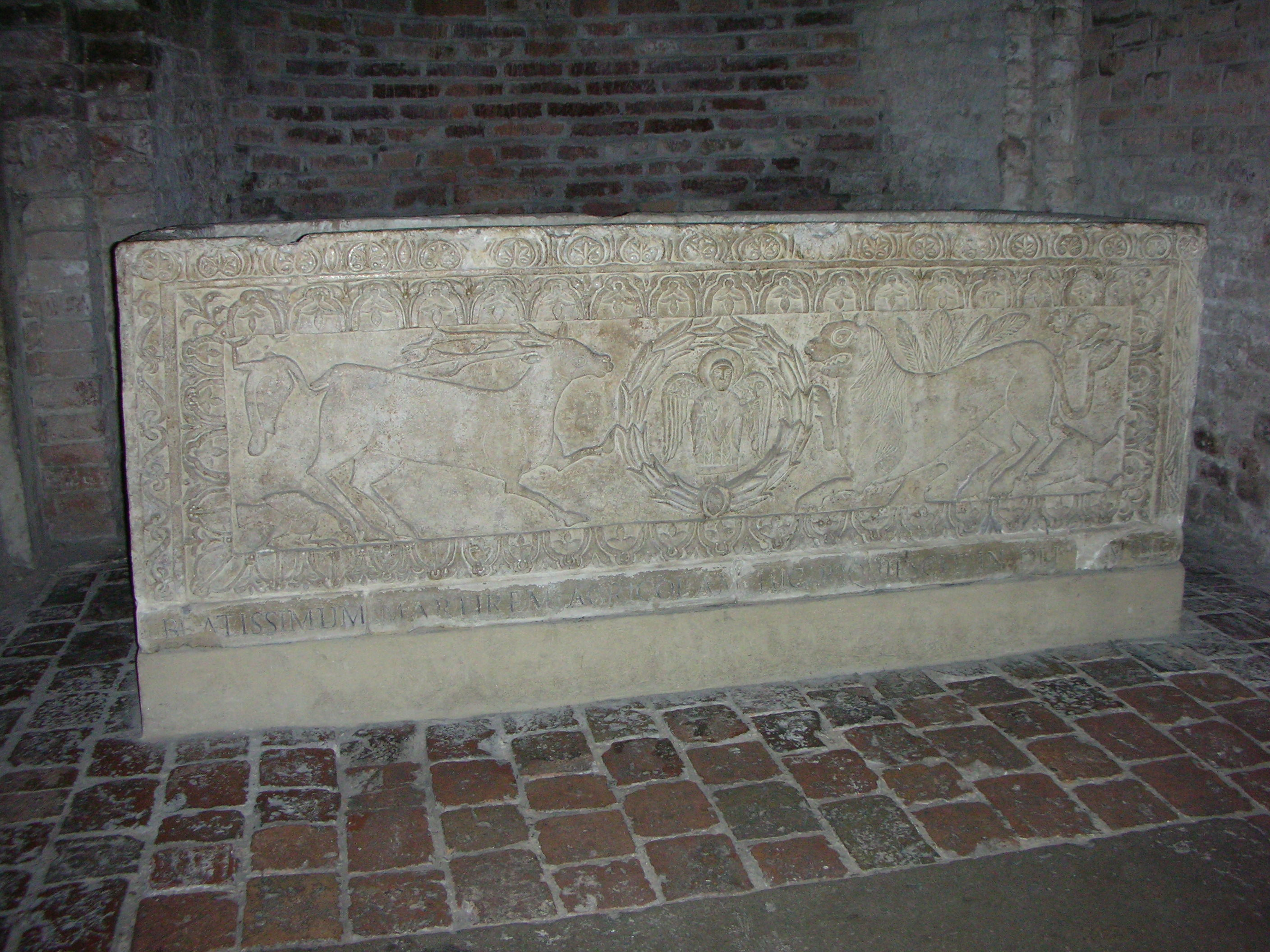 Buildings of Saint Stephen's Basilica in Bologna, Italy, also known as "The Seven Churches". In this picture, the grave of Saint Agricola, within the building called "Basilica dei santi Vitale e Agricola".